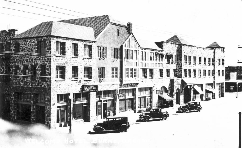 Original Collection: Gerald W. Williams Collection Item Number: WilliamsG_SEO_Burns hotel Image Description: The Hotel was built in 1929 and burned on July 15, 1937. Restrictions: Please contact the OSU Archives for permissions forms or information on how to cite our collections. Click here to view our digital collections. You can find this image by searching for the item number. Click here to view Oregon State University's other digital collections. We're happy for you to share this digital image within the spirit of The Commons; however, certain restrictions on high quality reproductions of the original physical version may apply. To read more about what “no known restrictions” means, please visit the OSU Archives website.